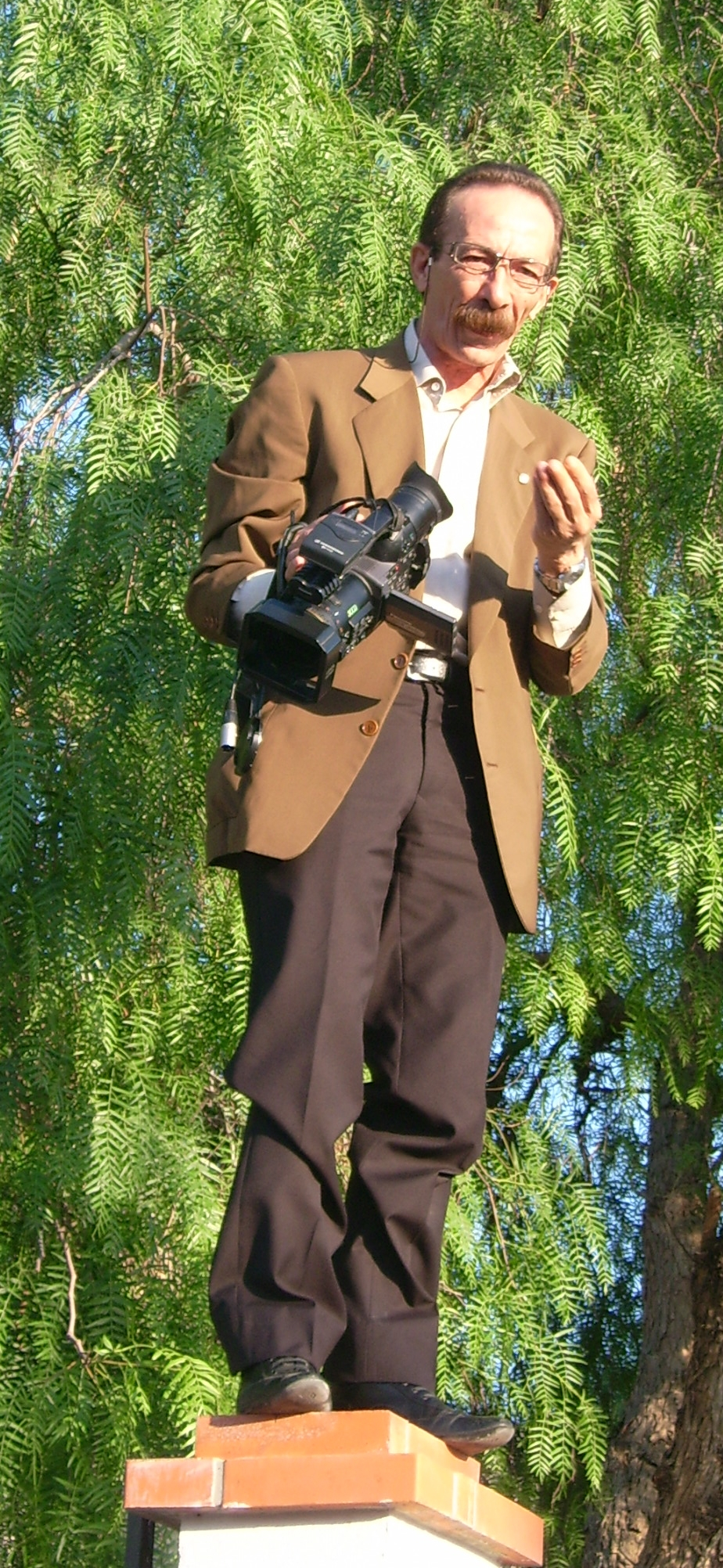 Pino Maniaci filming event in memory of Peppino Impastato, Cinisi 9 may 2010. The hand gesture means: "I don't understand what are you saying?" or "What do you want/need?"